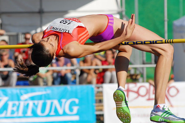 Mirela Demireva at "Spitzen Leichtathletik Luzern", 2012, Lucerne, Switzerland